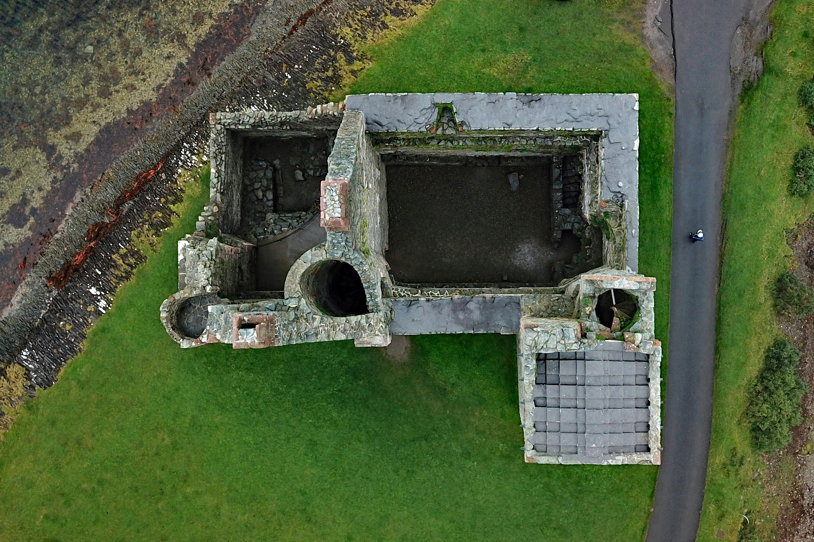 Lochranza Castle top view